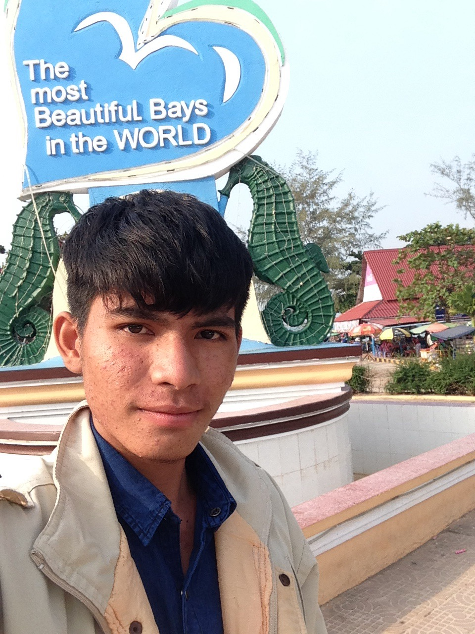 Shot in The most Beautiful Bays in the WORLD May 21st, 2016 in Cambodia. Travel on tour on a long holiday.